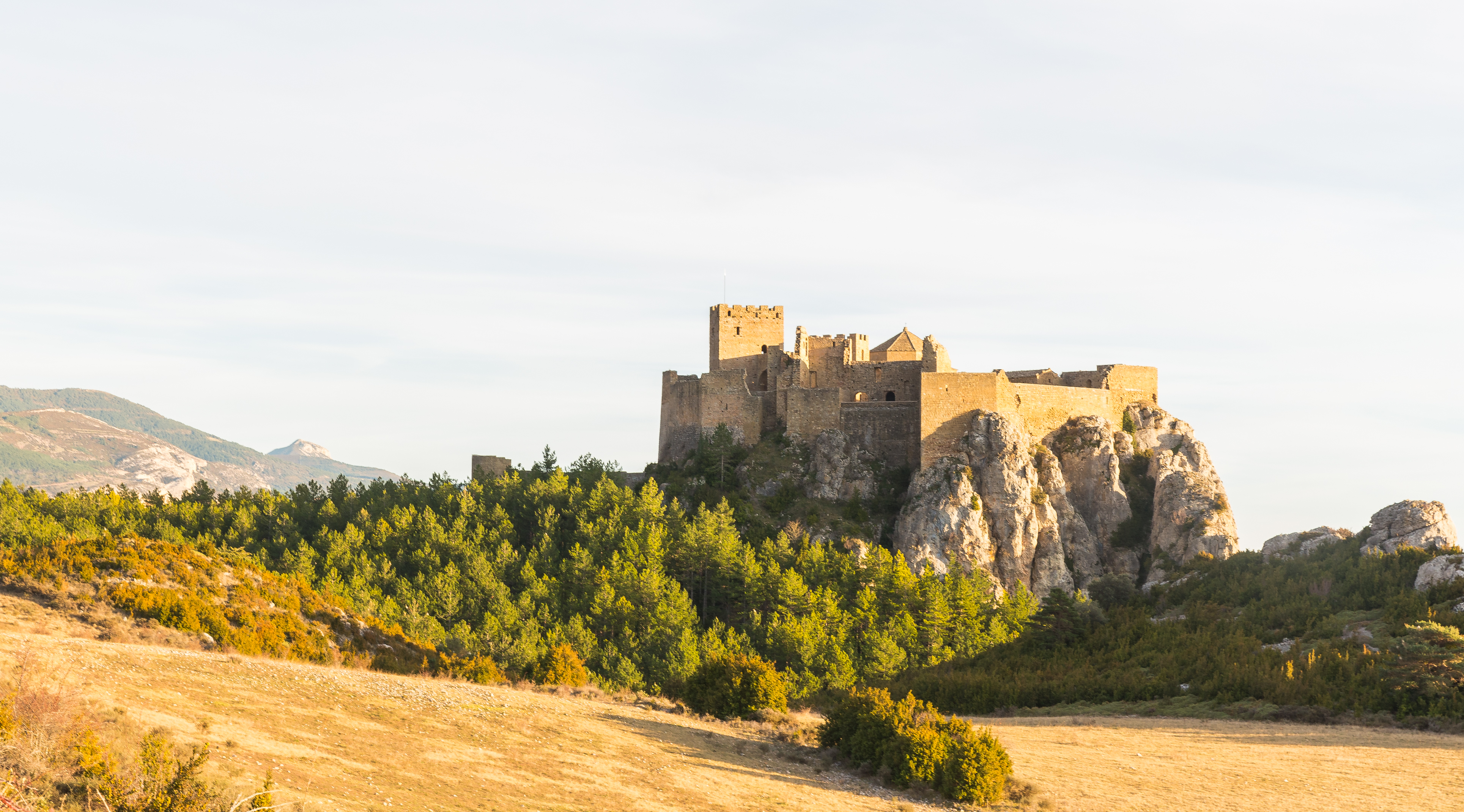 Loarre Castle, Loarre, Huesca, Spain